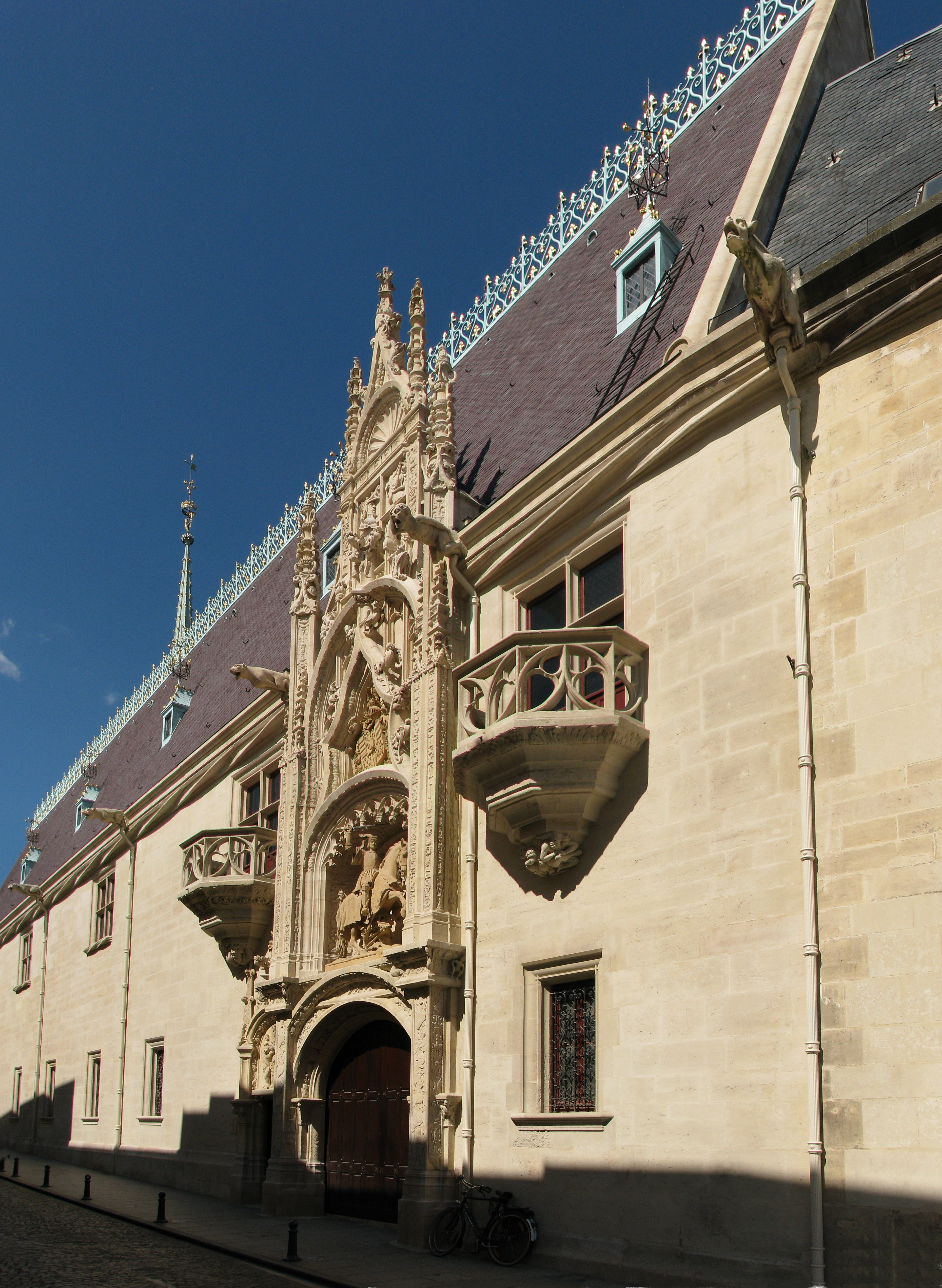 Palace of the Dukes of Lorraine